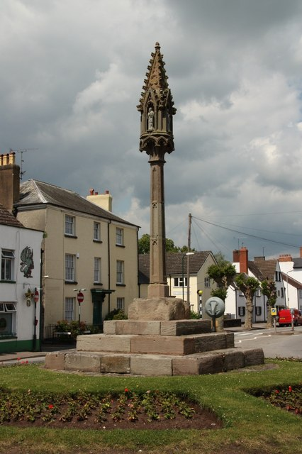 Overmonnow Cross Centrepiece of the roundabout in St.Thomas's Square by Monnow Bridge, a much restored medieval cross base with 20th century shaft and top